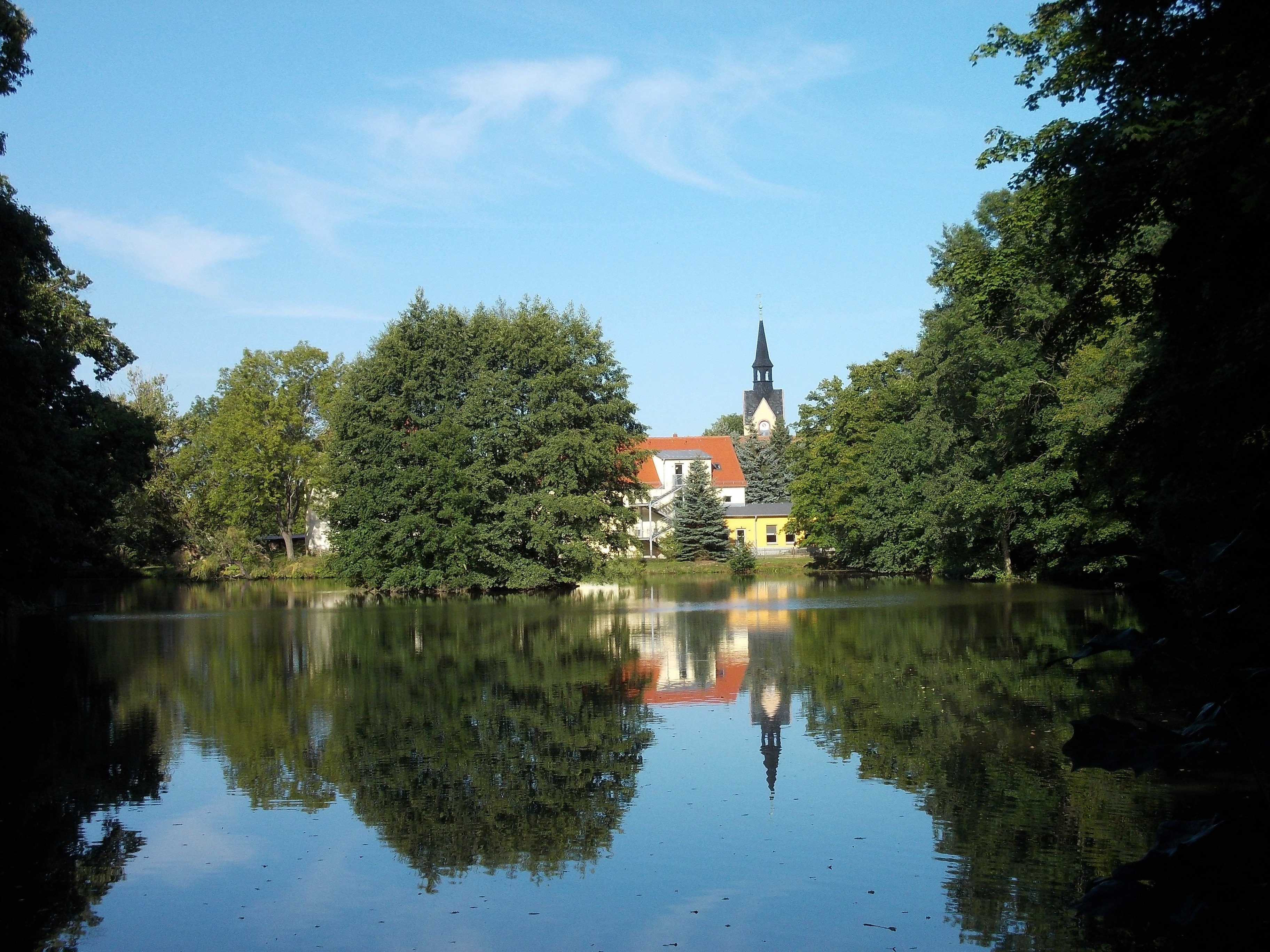 View of Nöbdenitz (district of Altenburger Land, Thuringia) over the pond